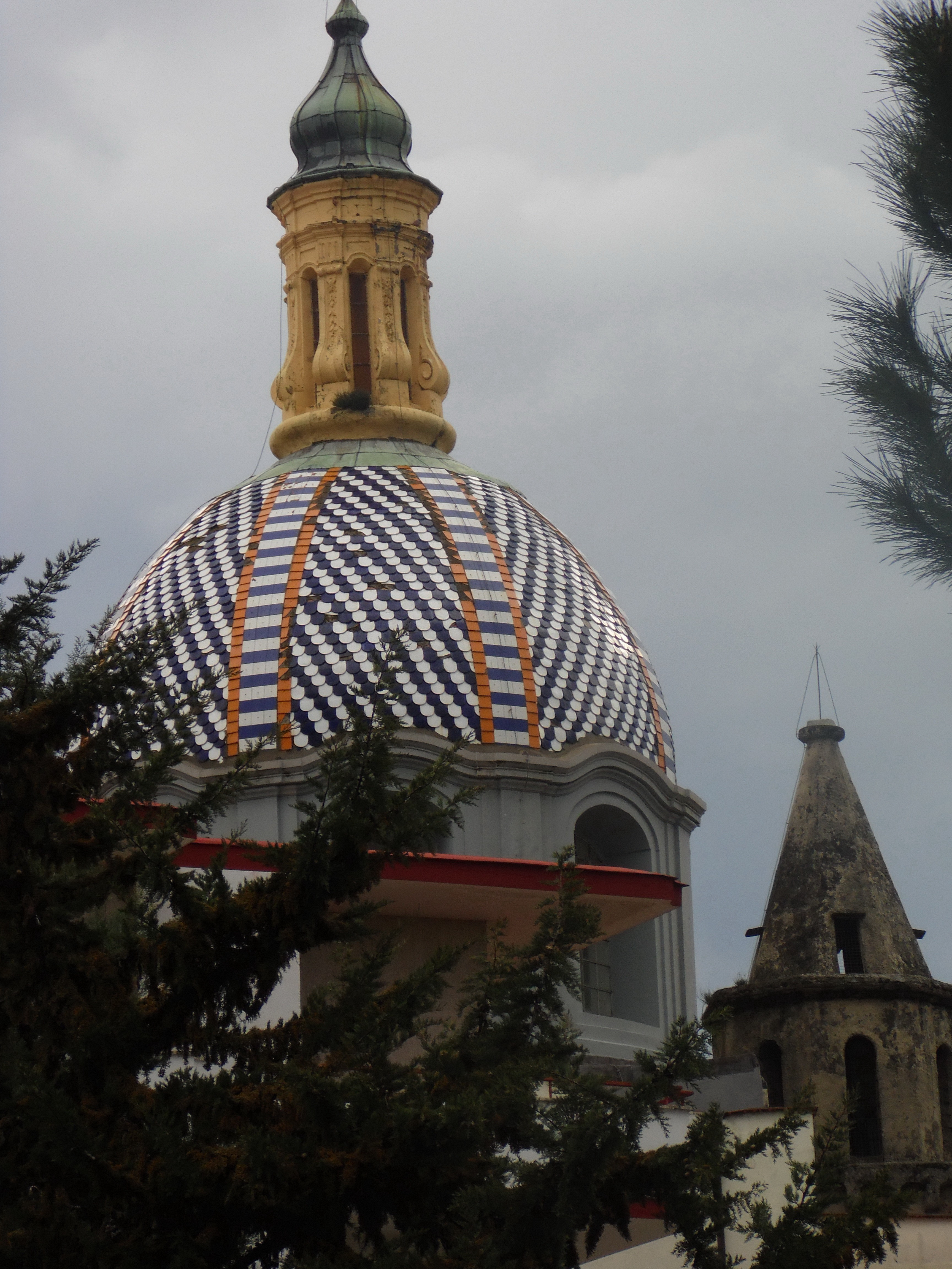 Pomigliano d'Arco, scorcio da un tetto.